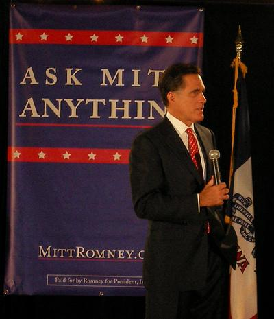 Former Massachusetts Gov. Mitt Romney, a GOP presidential hopeful, campaigns May 9 in Ames.